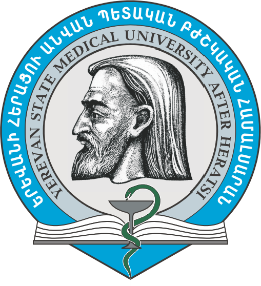 Yerevan State Medical University logo